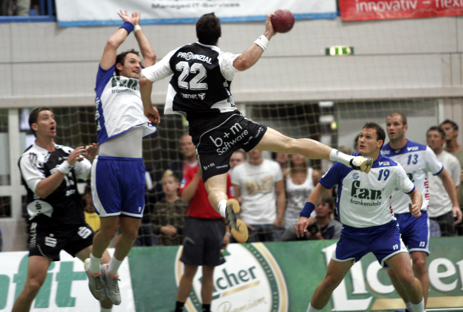 Nikola Karabatić, french handball player from THW Kiel, in a bundesliga game vers. TV Grosswallstadt